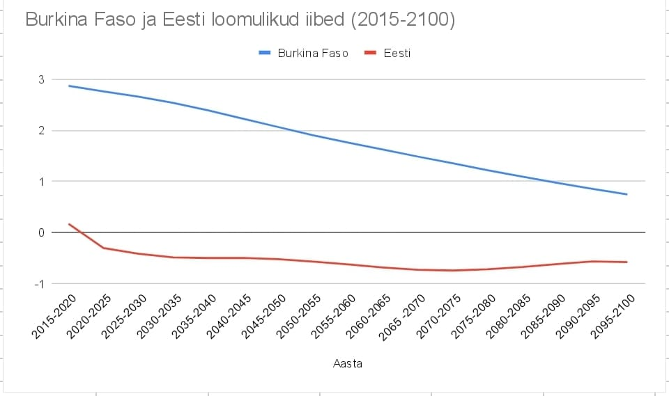 Burkina Faso ja Eesti loomulikud iibed (2015-2100)